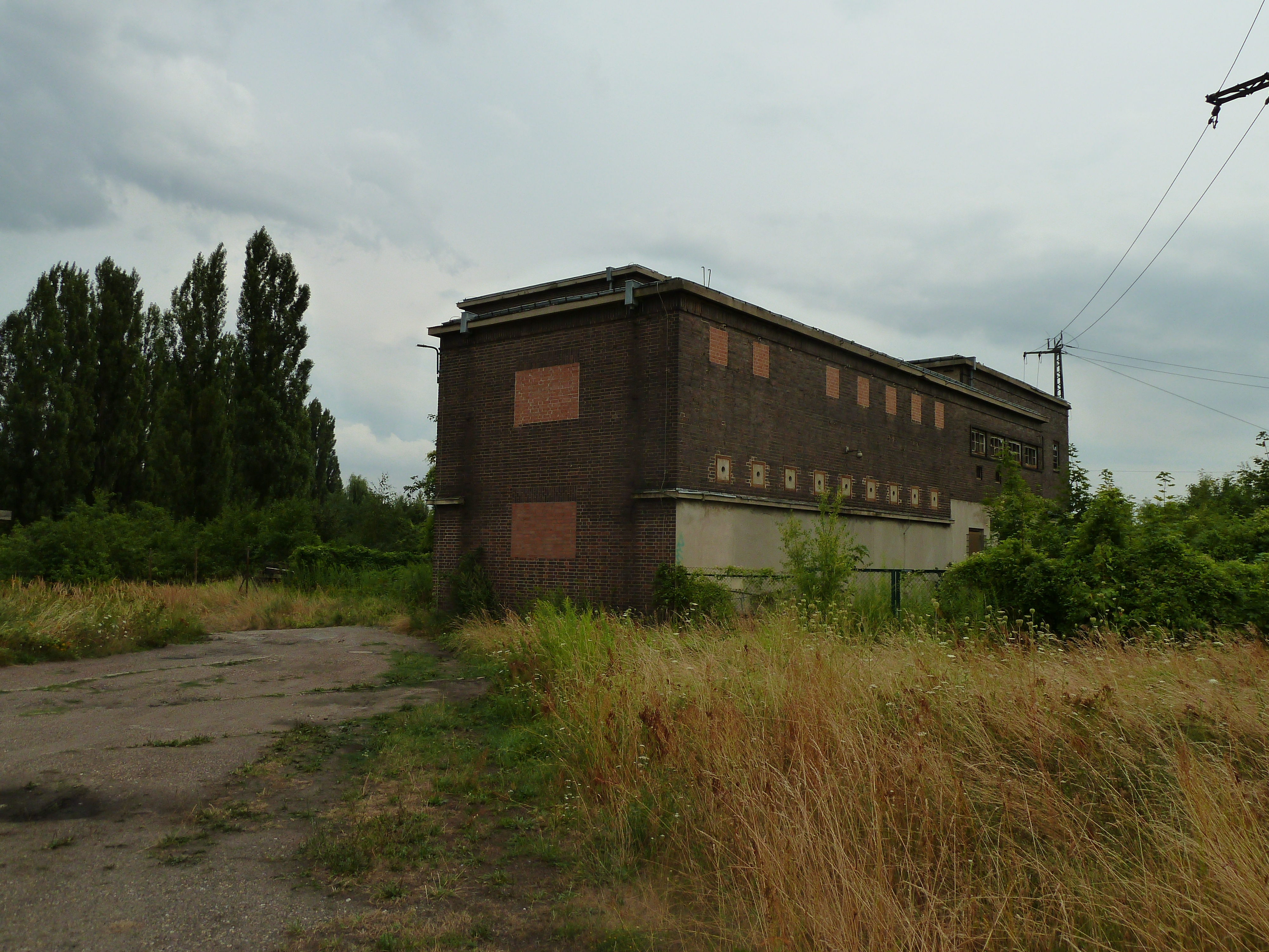 Railway transformer station in Köthen, cultural heritage